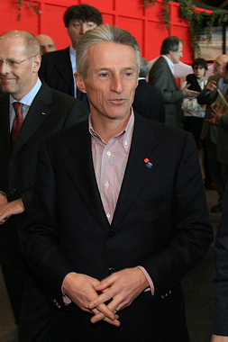 Riccardo Illy, Italian businessman and politician